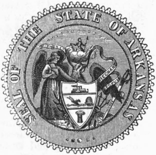 Seal of Arkansas, a state of the United States.